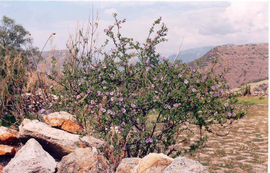 Lycianthes lycioides (Solanaceae) - Pitunilla (Dept. Ayacucho, Prov. Parinacochas, Peru). Alt.: 3000 m. January, 2005.